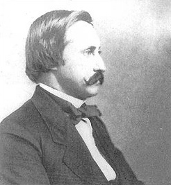 Alfred Landon Rives (b. 1830), designer of the Union Arch Bridge in Cabin John, Maryland and later acting Chief Engineer of the Confederate States of America